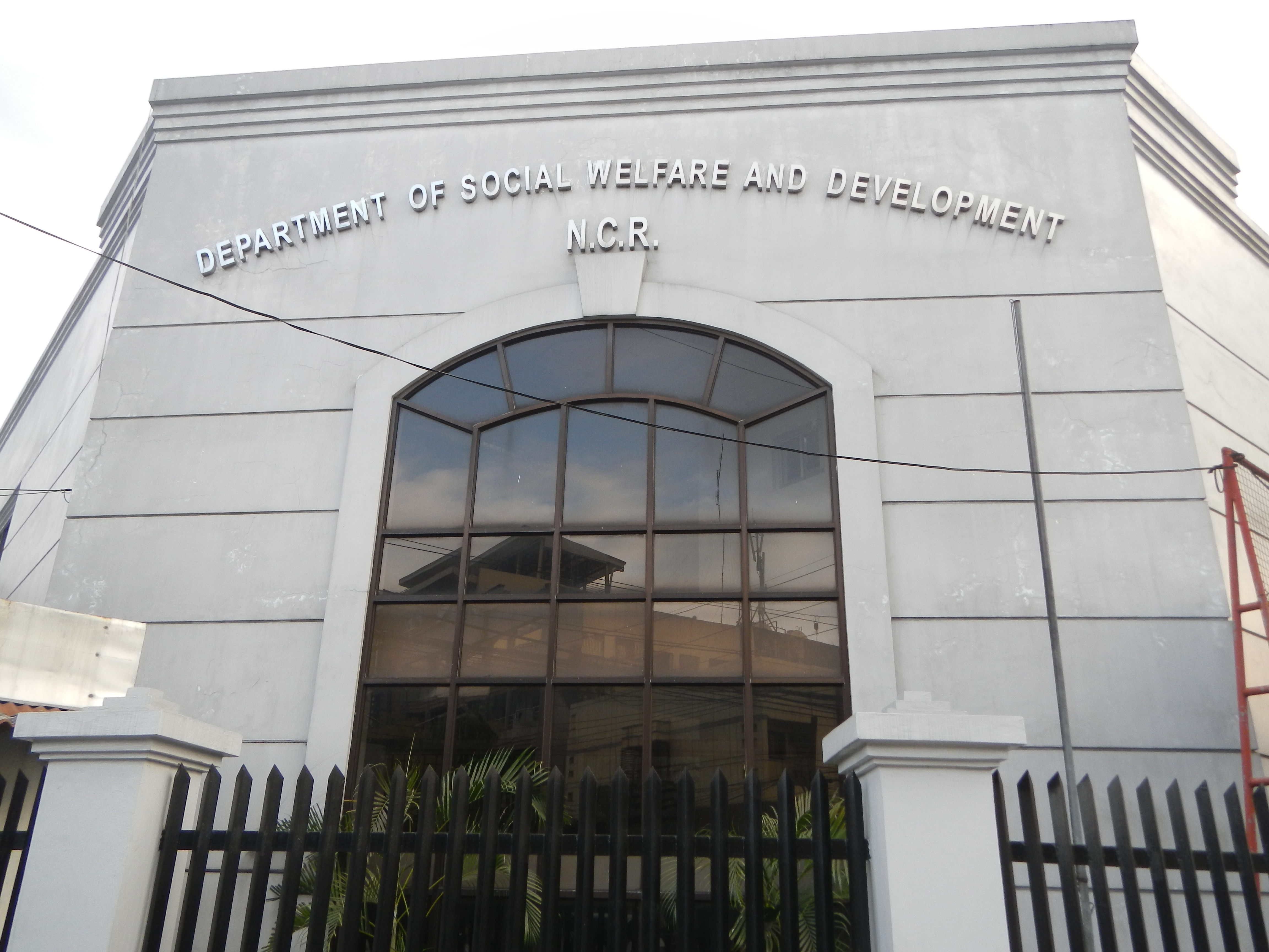 Upload Wizard photos of - a) Ling Nam Wanton Parlor and Noodle Factory [1] was founded in Chinatown in 1950 served traditional Chinese short-order fare, 616 T. Alonzo st. cor. Kipuja st. Coordinates: 14°36'7"N 120°58'43"E b) Battle of Manila (1945) [2] [3] Malacañan Palace (Manila) José P. Laurel Street Eagle Monument c) Samson College of Science and Technology - Manila, 25 Potenciana St. Intramuros, Manila d) Department of Social Welfare and Development (Philippines)[4] NCR, Intramuros, Manila e) Saint Rita College [5] by the Augustinian Recollect Sisters Augustinian nuns [6]Order of Augustinian Recollects [7] #74 San Rafael St., Plaza del Carmen, Quiapo, Manila [8] 1719 Beaterio de Terciarias Agustinas Recoletas Coordinates: 14°35'58"N 120°59'23"E.